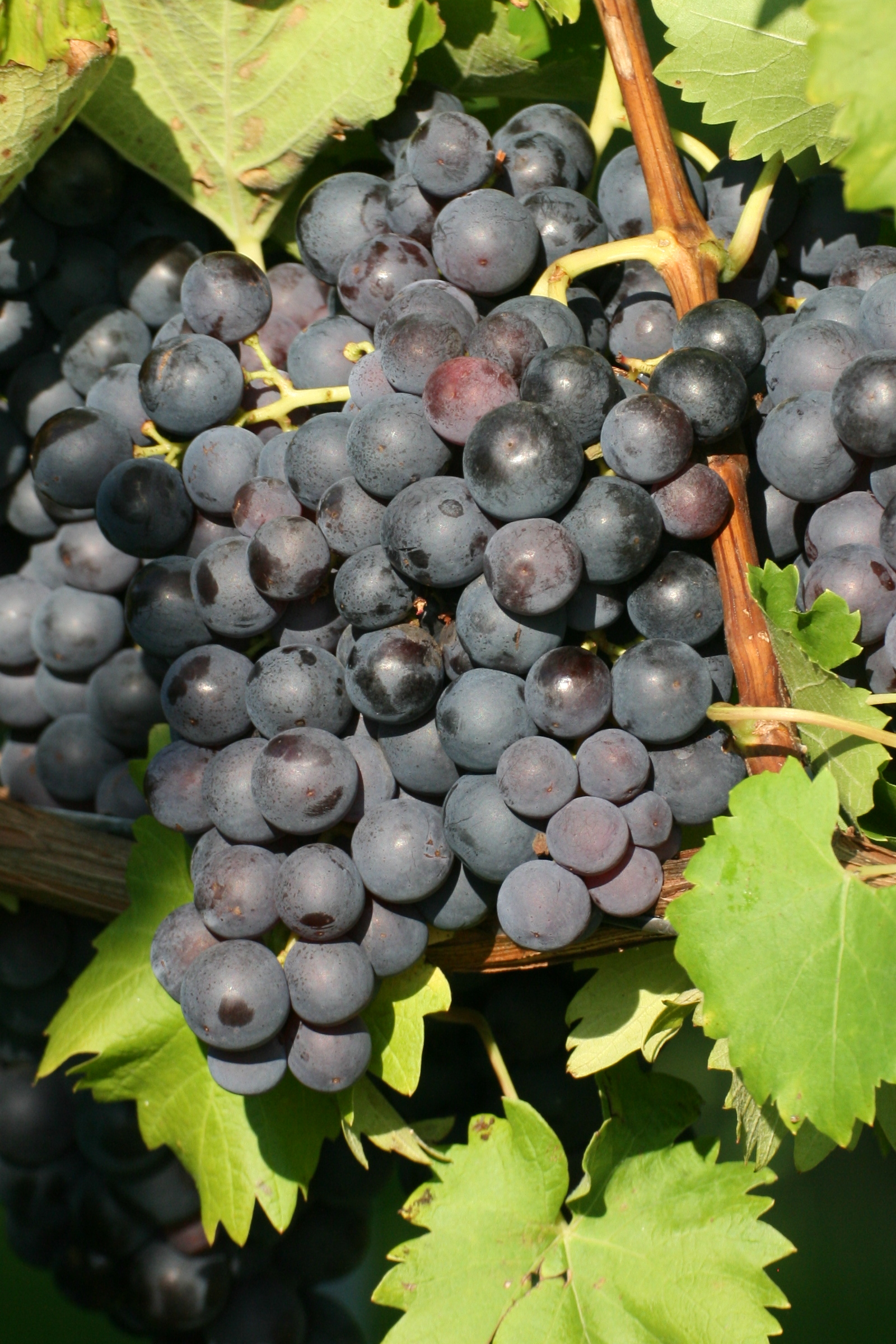 Grapes and leaves of the grape variety Trollinger, photographed in Lehrensteinsfeld